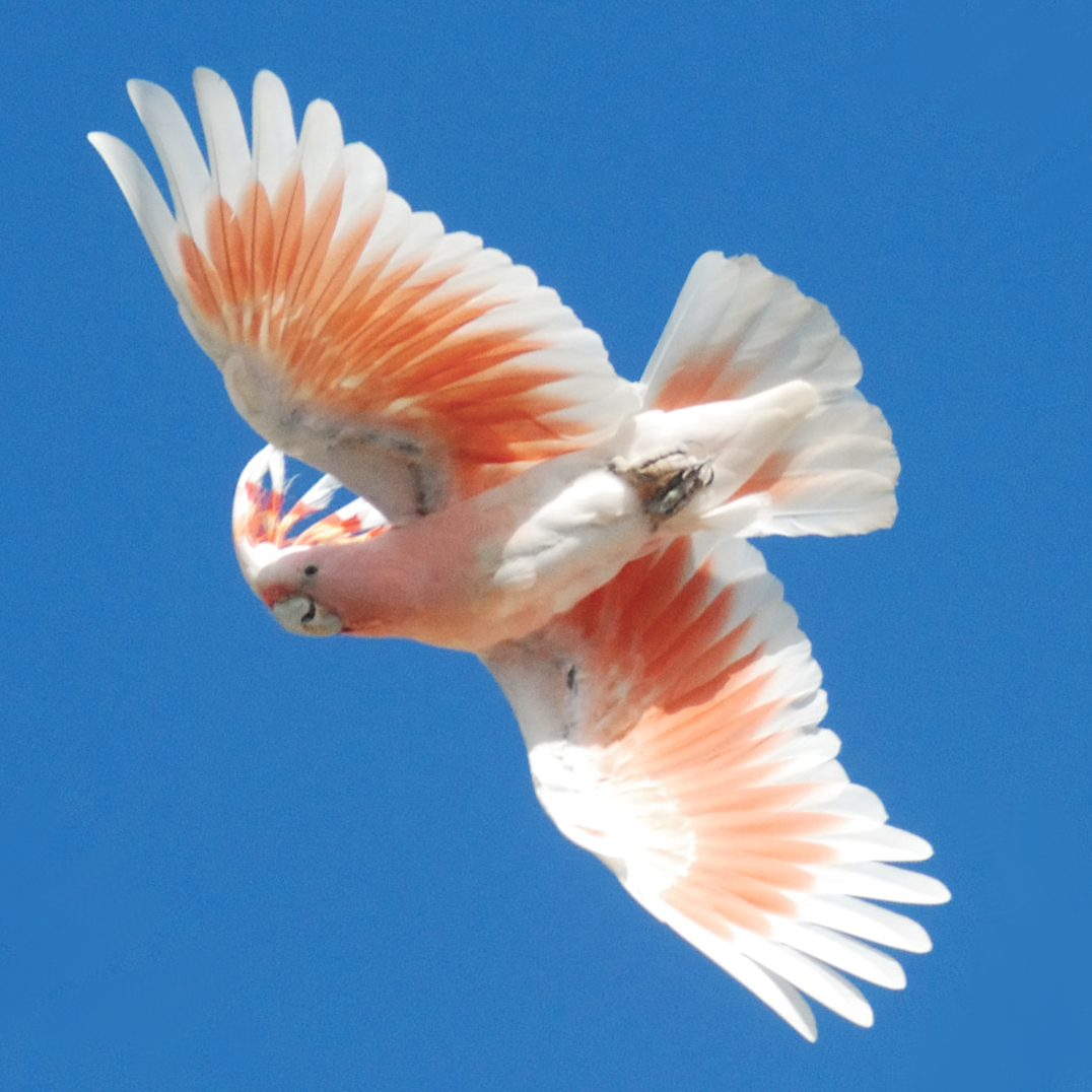 Major Mitchell's Cockatoo, also known as Leadbeater's Cockatoo or Pink Cockatoo flying at Australia Zoo, Queensland, Australia.